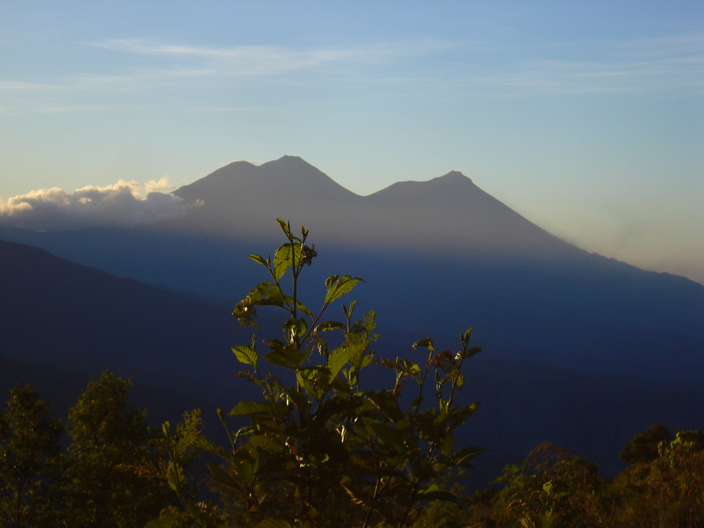 Volcanoes in Guatemala: Volcán de Agua (left), Volcán Acatenango (center) Volcán de Fuego (right).